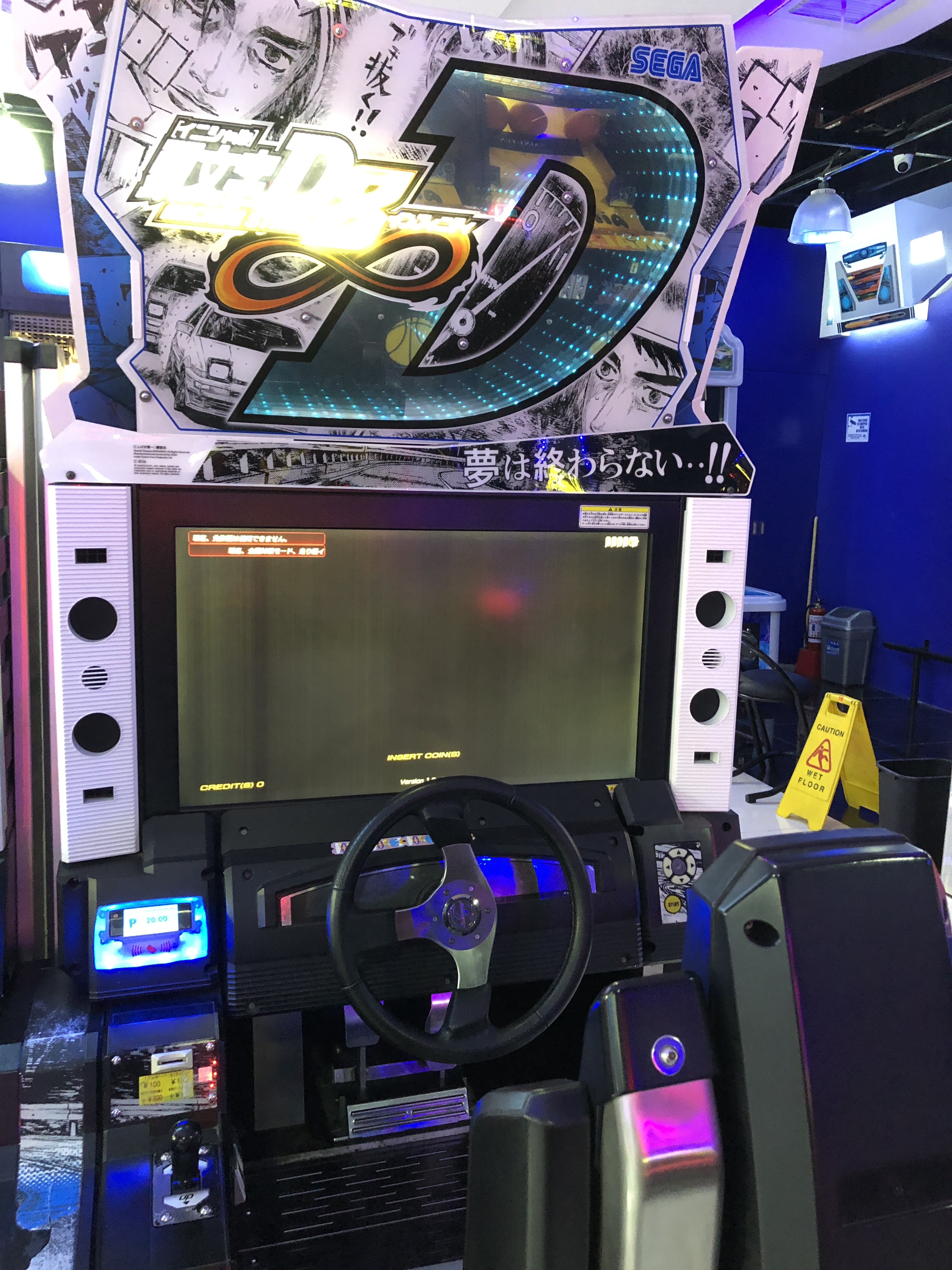 Single arcade seat of Initial D Arcade Stage 8 Infinity.